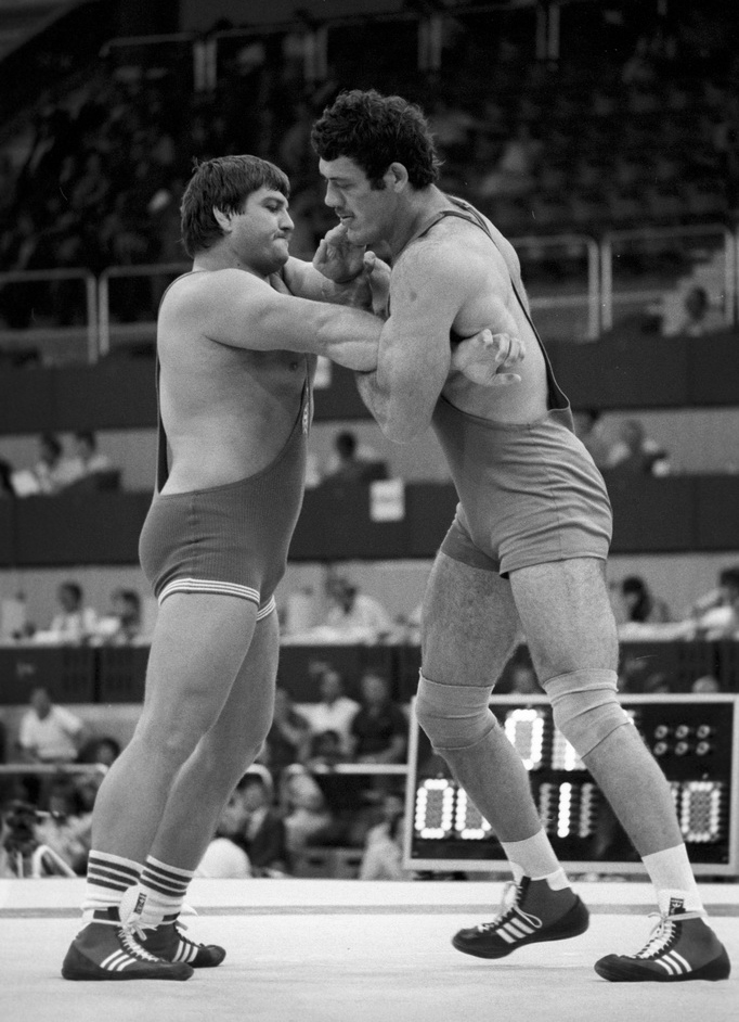 “Wrestlers Adam Sandurski and Jozsef Balla during their match”. A men's Wrestling freestyle + 100 kg match at the 1980 Summer Olympics. Bronze medal winner Adam Sandurski of Poland (right) and silver medal winner Jozsef Balla of Hungary. XXII Summer Olympics. CSKA Sports Complex in Moscow.